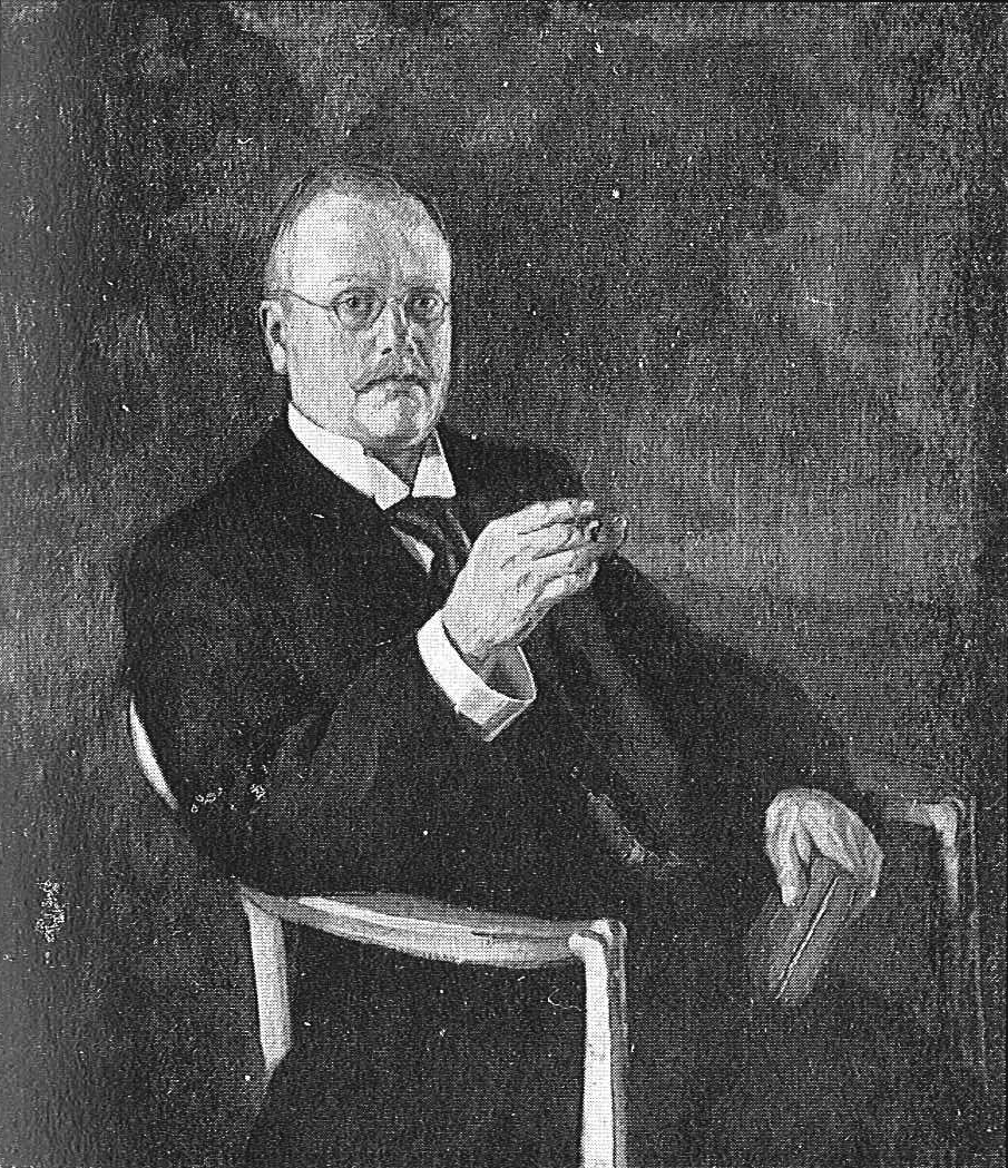 Swedish art historian August Hahr (1868-1947)